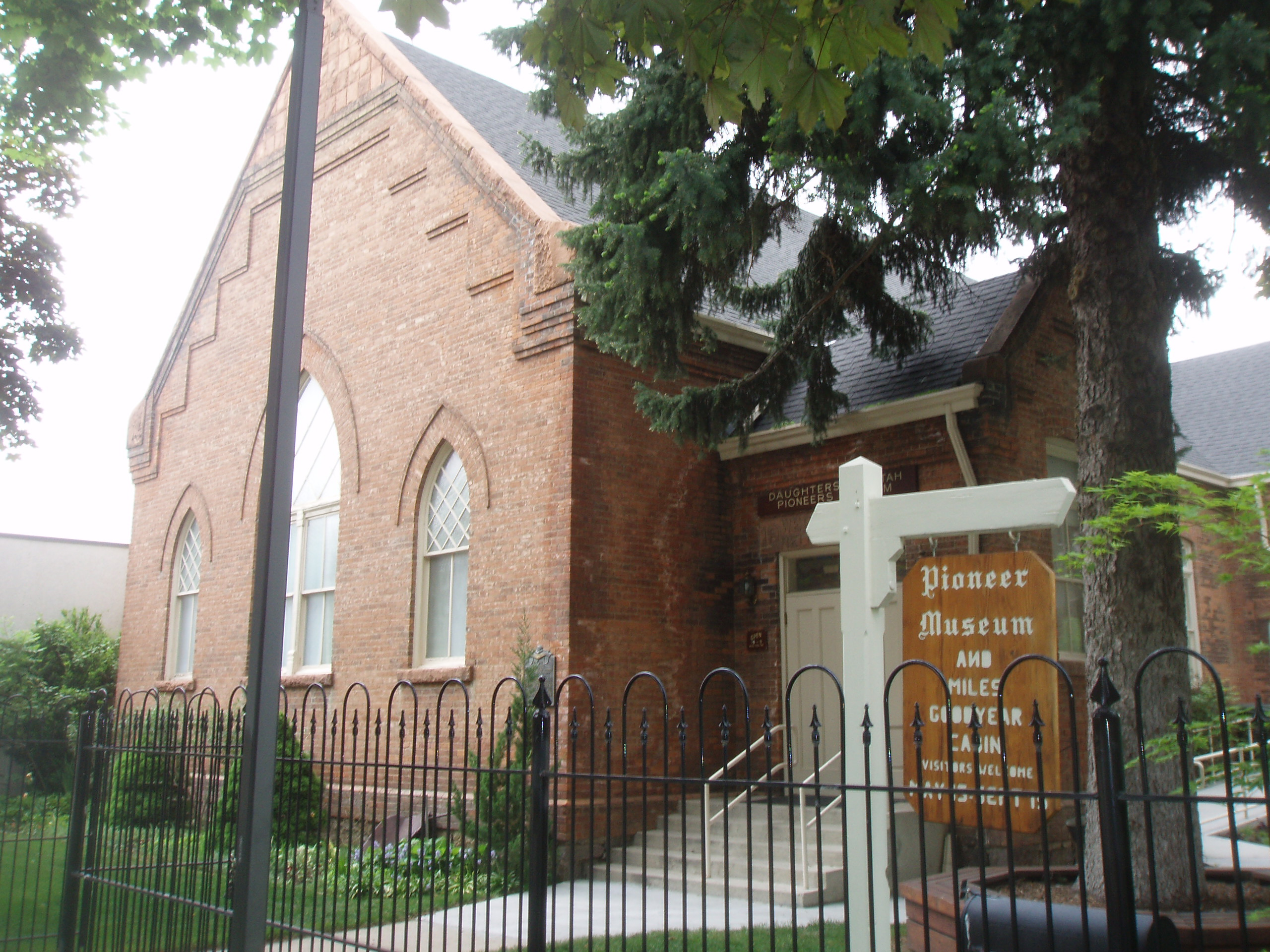 The Weber Stake Relief Society Building in Ogden, Utah, United States houses the Ogden Pioneer Museum, operated by Daughters of Utah Pioneers.